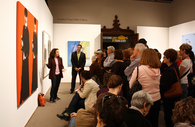 "Shifting the Gaze: Painting and Feminism" - Gallery Talk